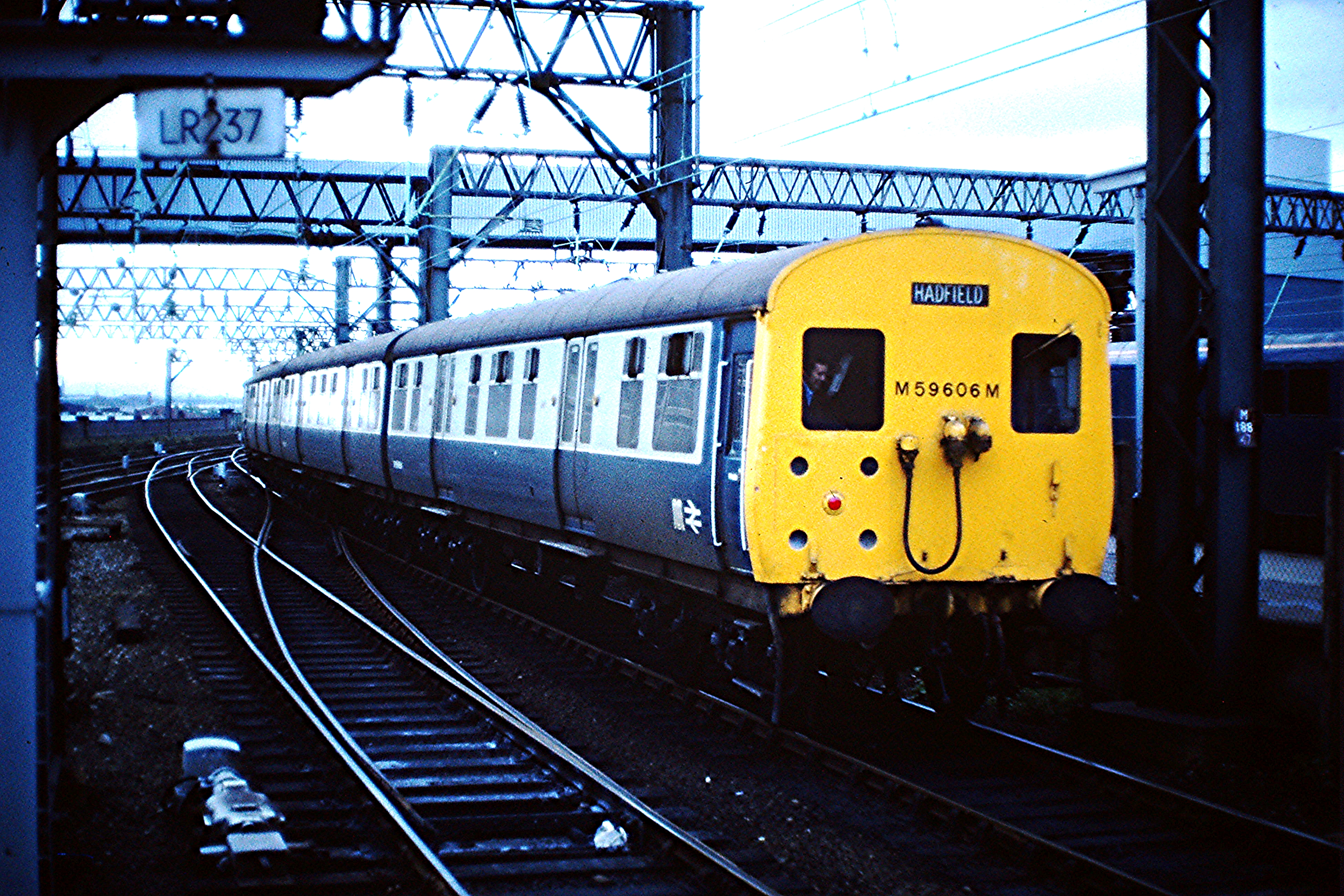 LNER/BR(ER)/Metro Cammell/BRCW Class "506" 1,500 V dc overhead inner suburban 3-car emu Nos.M59406M, M59506M, M59606M (originally with "E" prefixes and suffixes) - Set No.05 - in Rail Blue & Grey liverly and all yellow front end with Manchester PTE logo at Manchester (Piccadilly) on a service to Hadfield & Glossop, 08/82. Scanned slide taken with an Exacta.